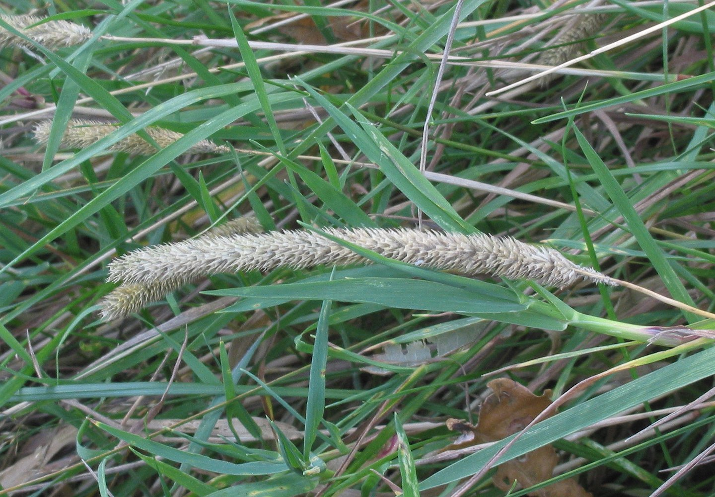 Phleum bertolonii inflorescence